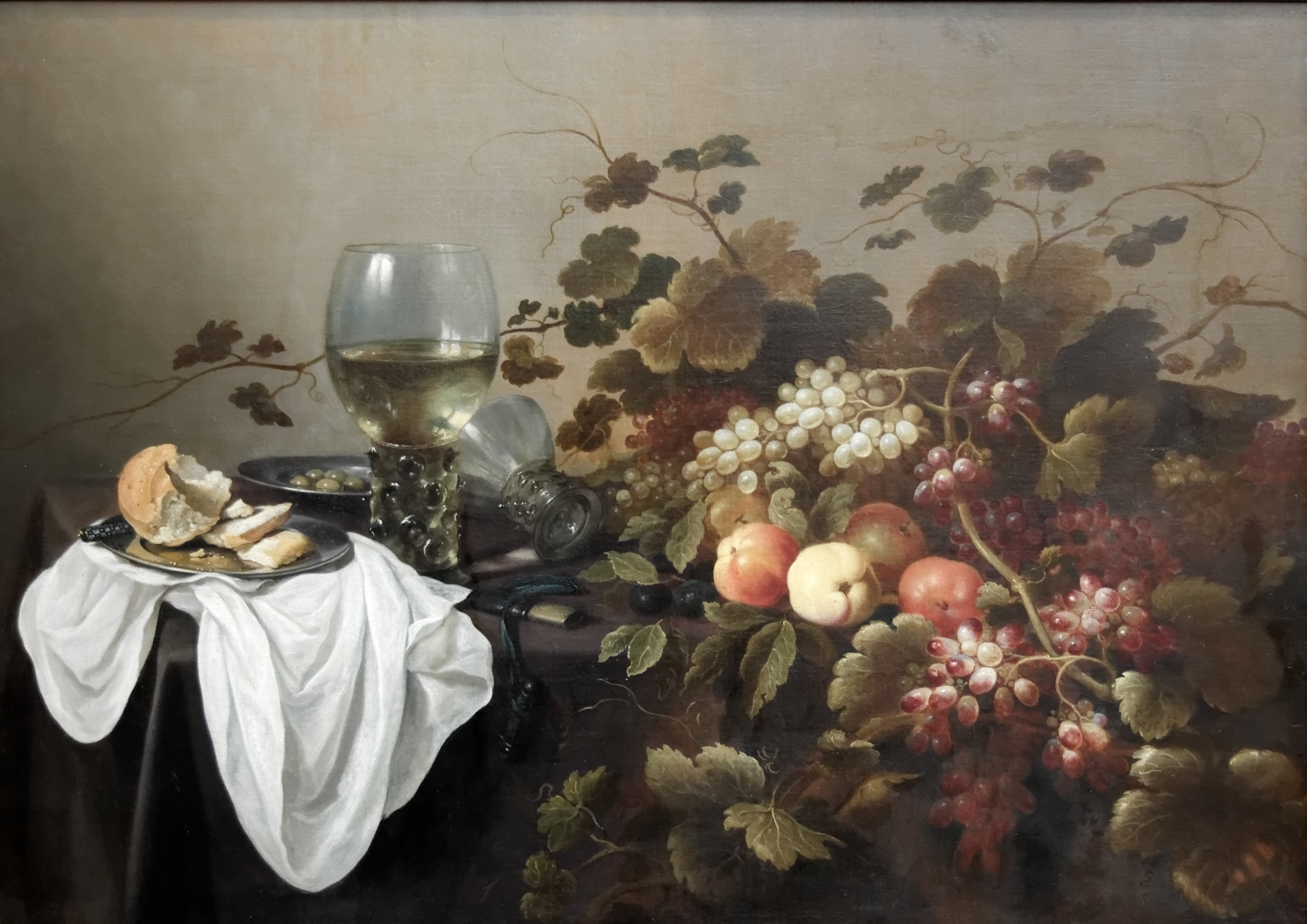 Still life with fruits and Roemer